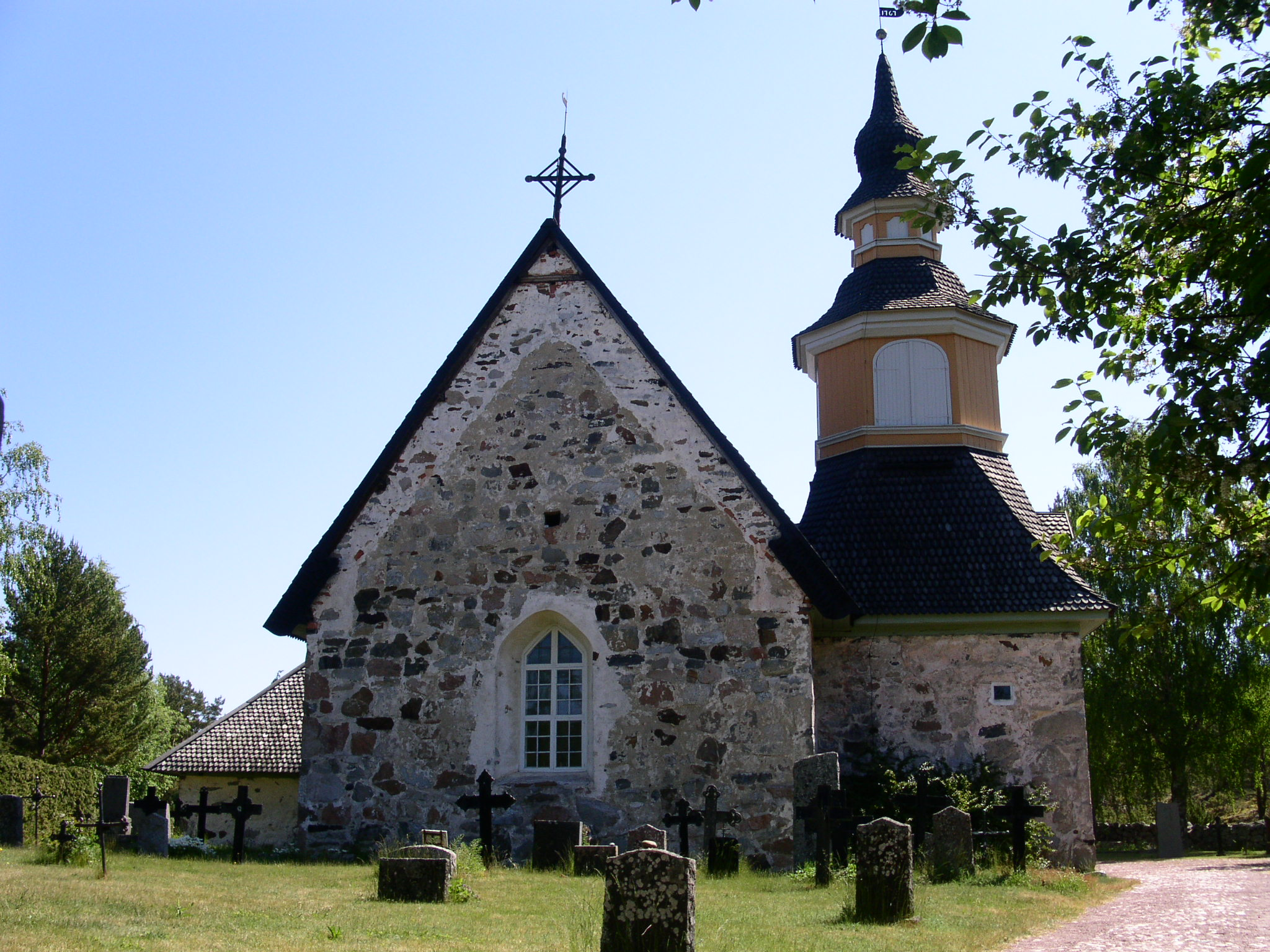 Kumlinge church, Åland, west side